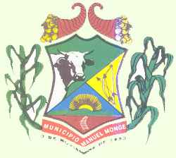 Manuel Monge Municipality shield (Yaracuy),Venezuela